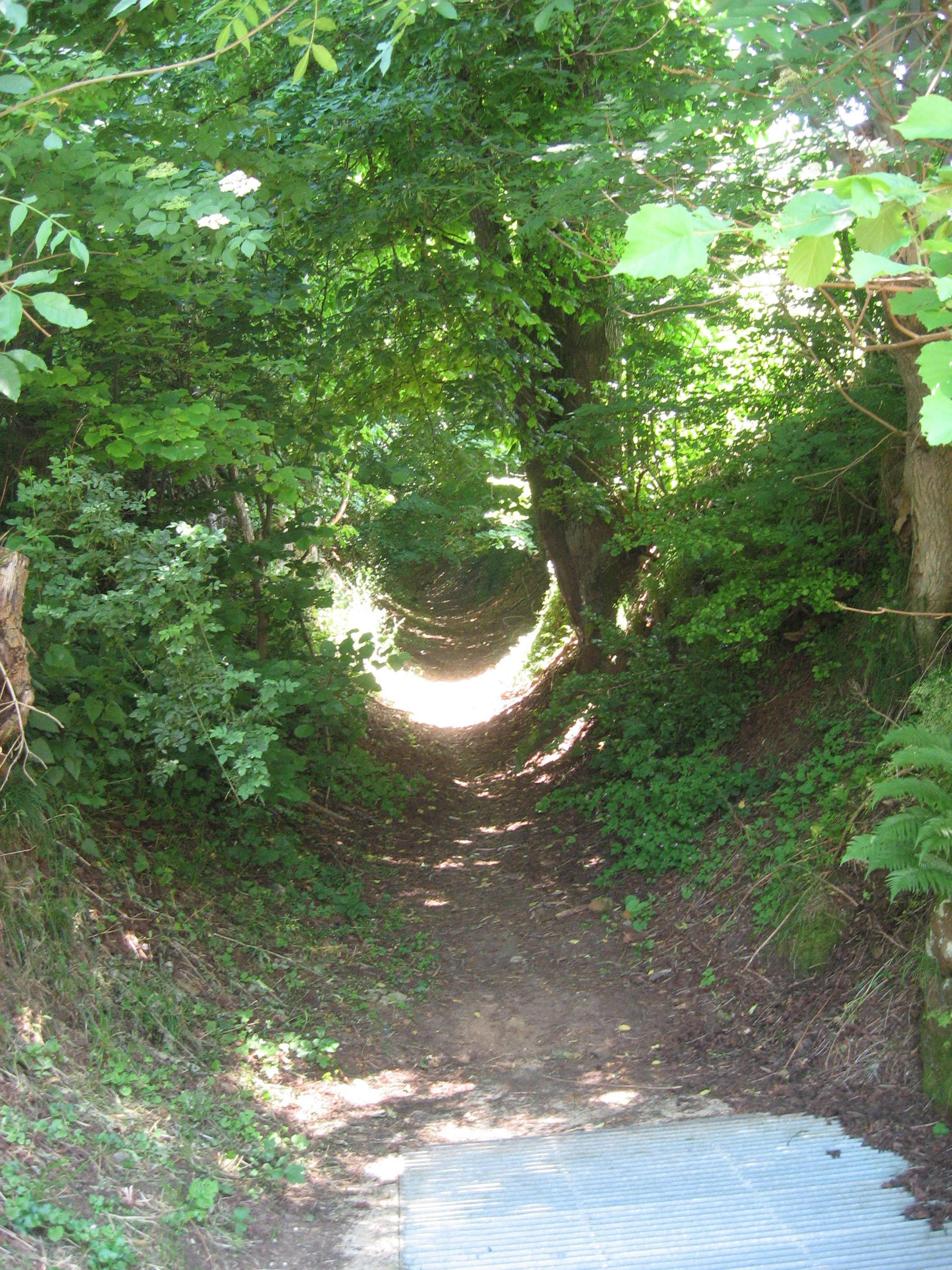 Entrance to the holloway of Hechlingen (part of Heidenheim, Bayaria, Germany)